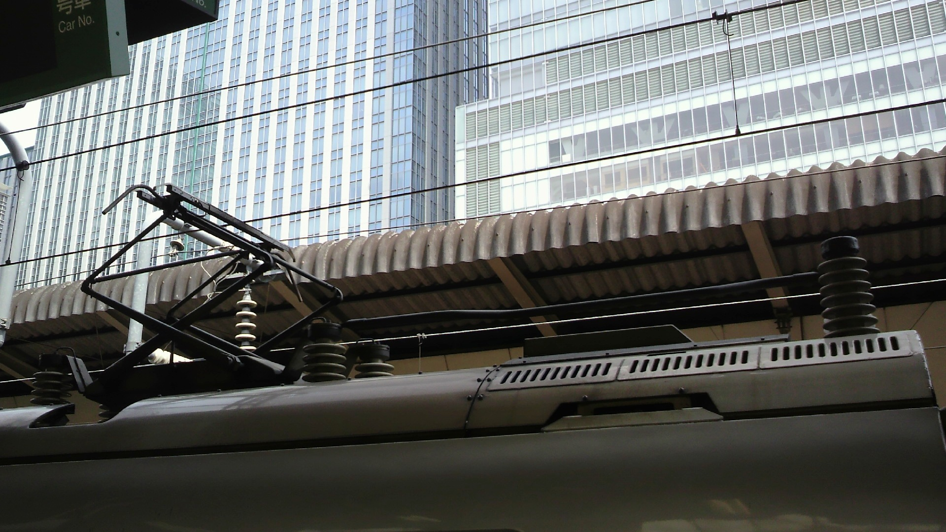 The pantograph of JR 400 Series Shinkansen.